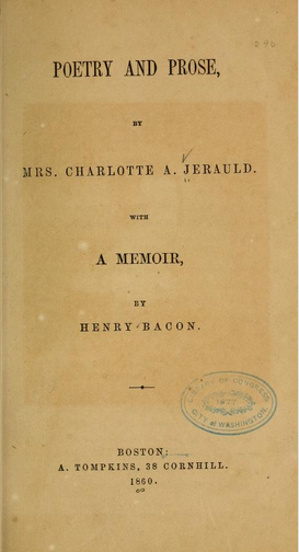 Poetry and prose, by Charlotte Ann Fillebrown Jerauld, Henry Bacon